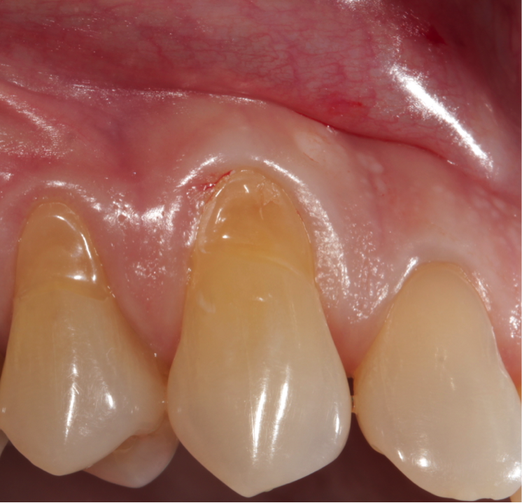 Gum graft